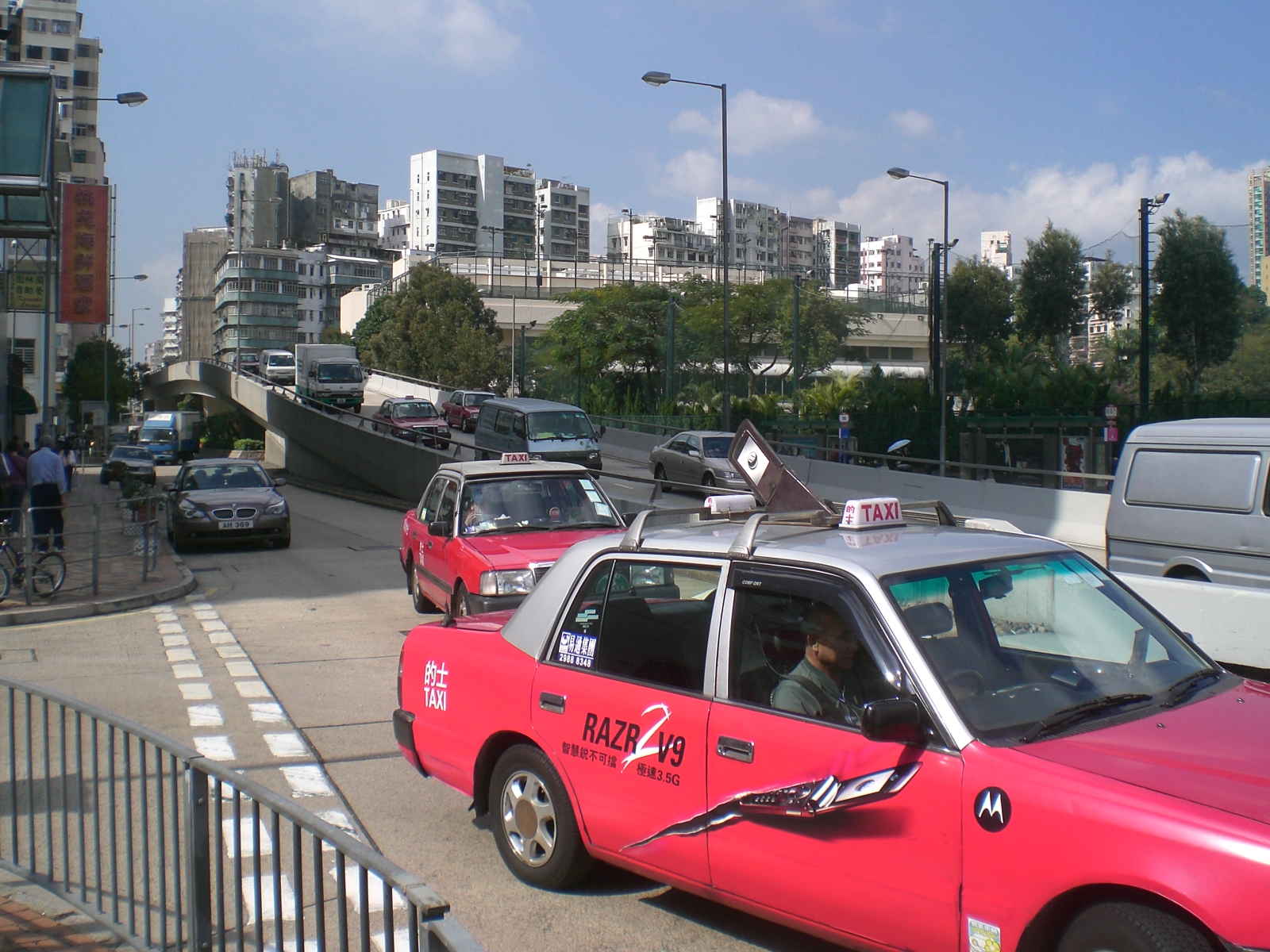 太子 (香港)界限街西望長沙灣道行車天橋手機摩托羅拉 Motorola RAZR V9, Boundary Street, Kowloon, Hong Kong.